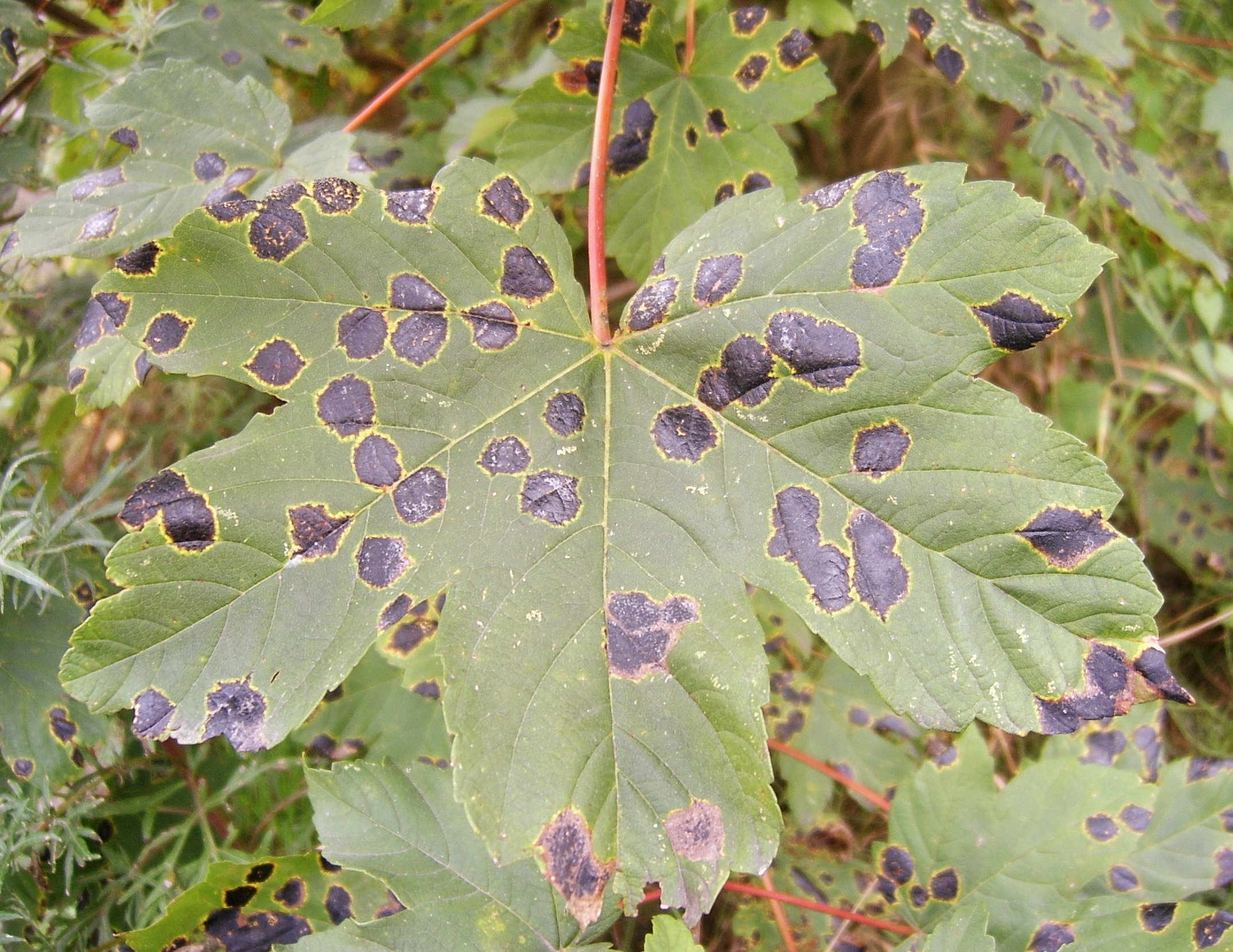 It shows a sick Maple leaf (Acer sp.). The fungus is Rhytisma_acerinum, often to be found on Acer pseudoplatanus.